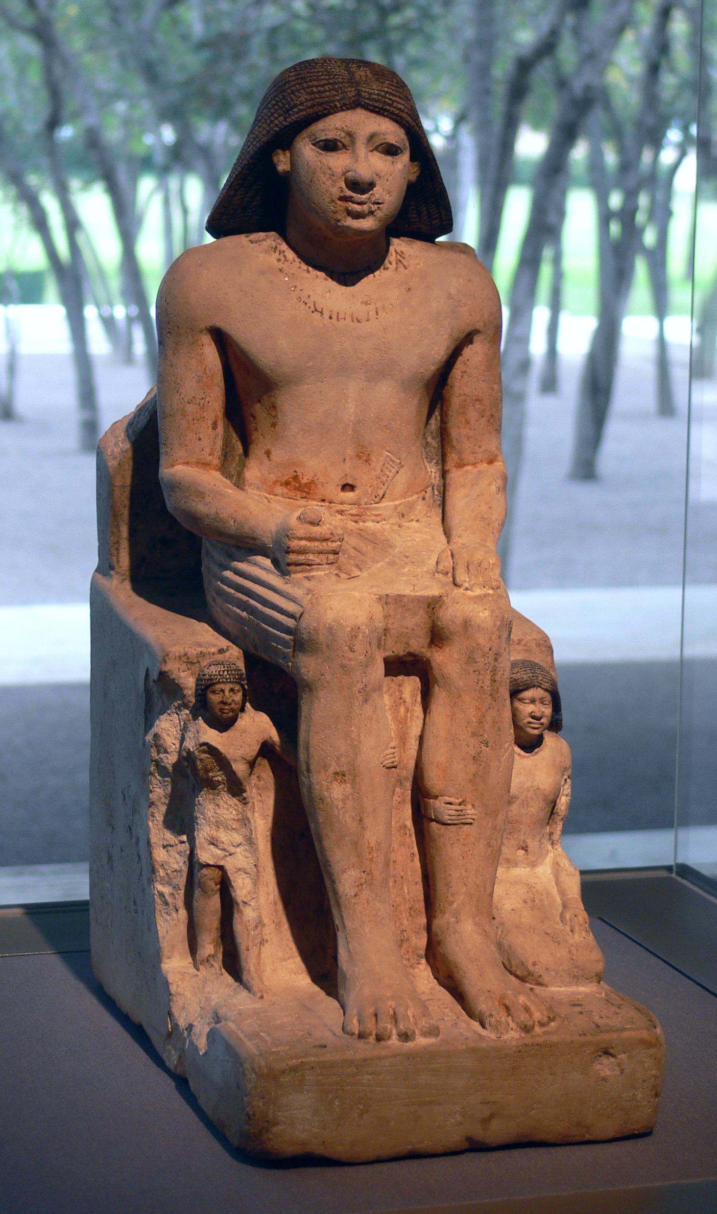 Group Statue of Ka-nefer and His Family